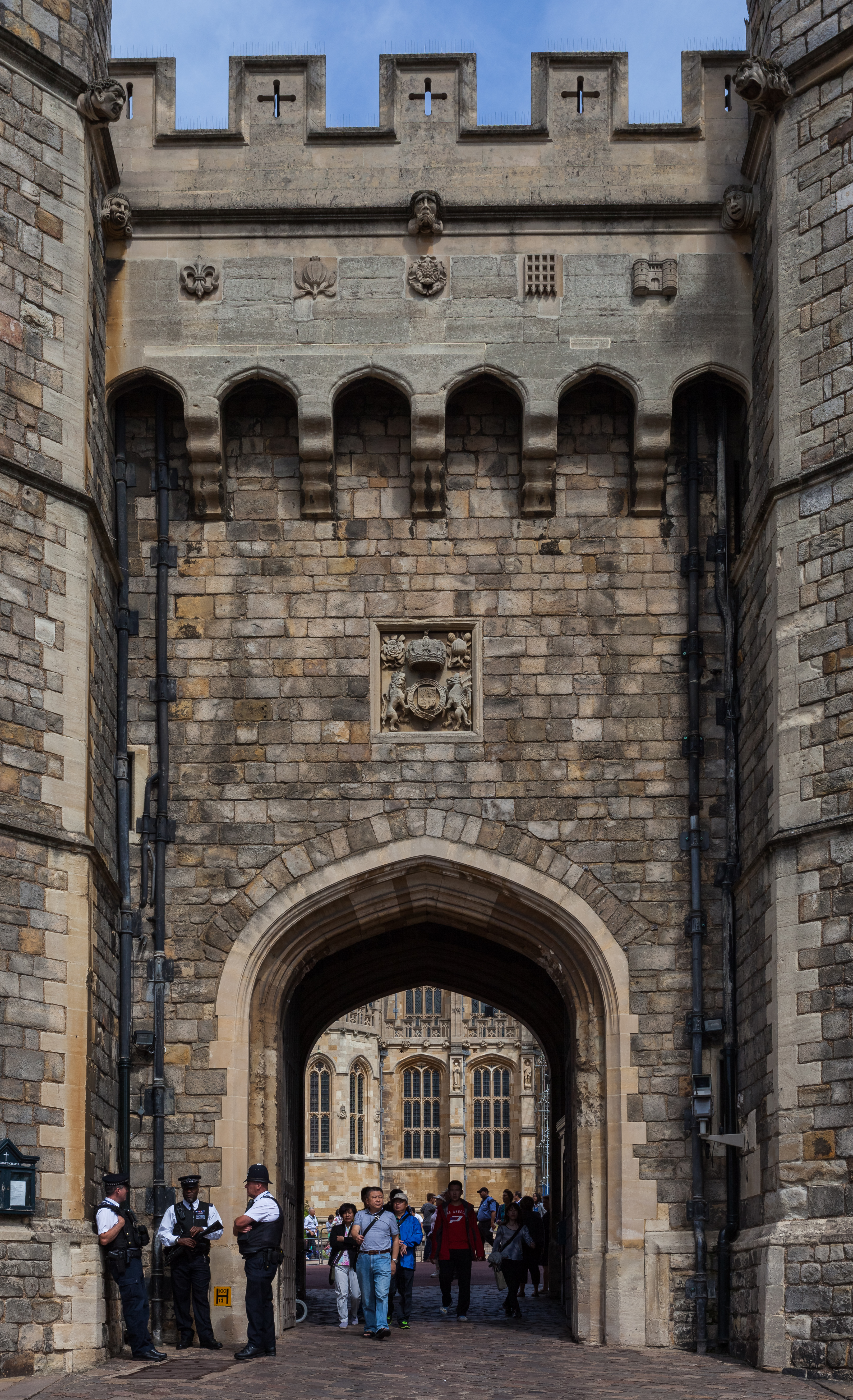 Windsor Castle, Windsor, England